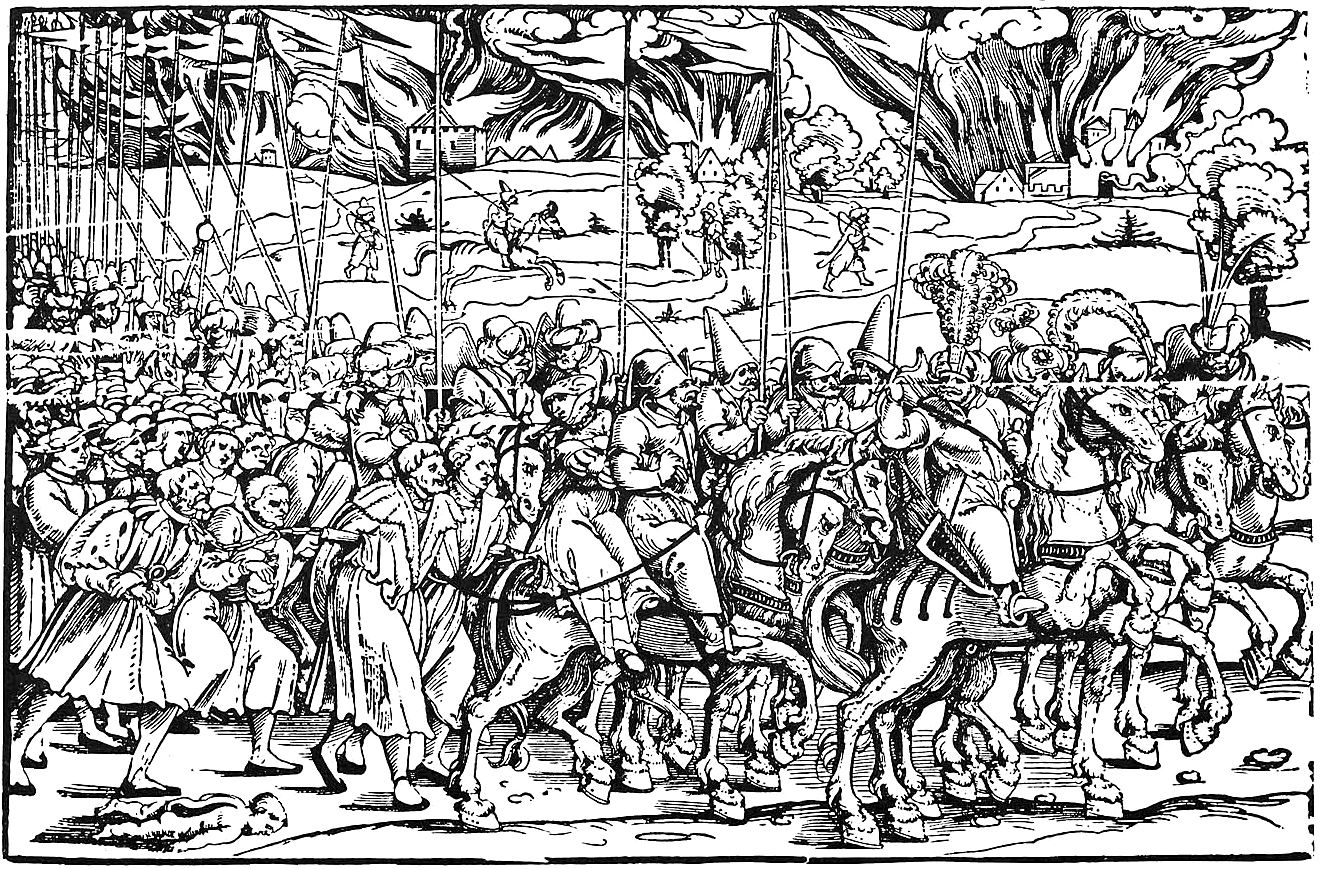 Erhard Schön. Turk with captives